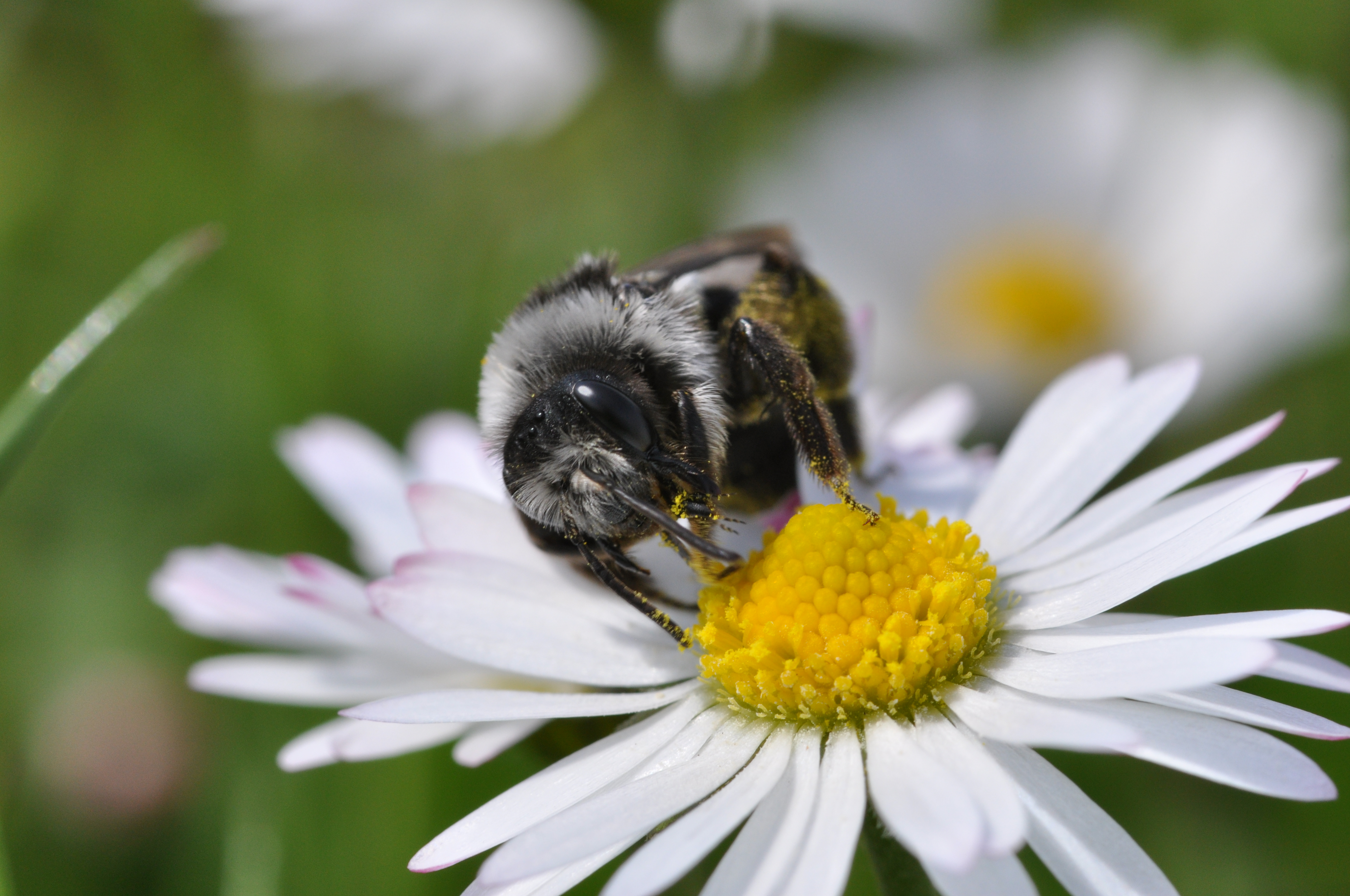 Andrena cineraria on Daisy flower in Kirchwerder, Hamburg. Marginal visible the characteristical dark line across the thorax.